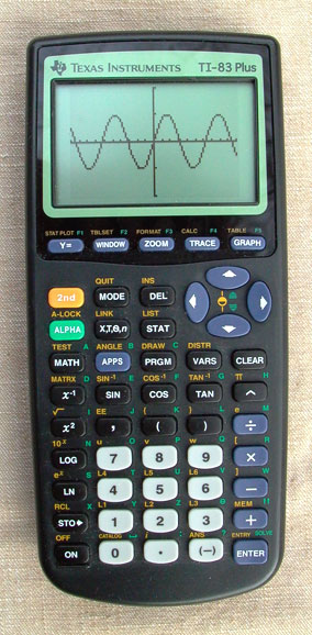 Front of Texas Instruments TI-83 graphing calculator